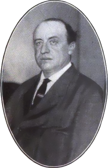 1910 portrait of Asher Crosby Hinds.